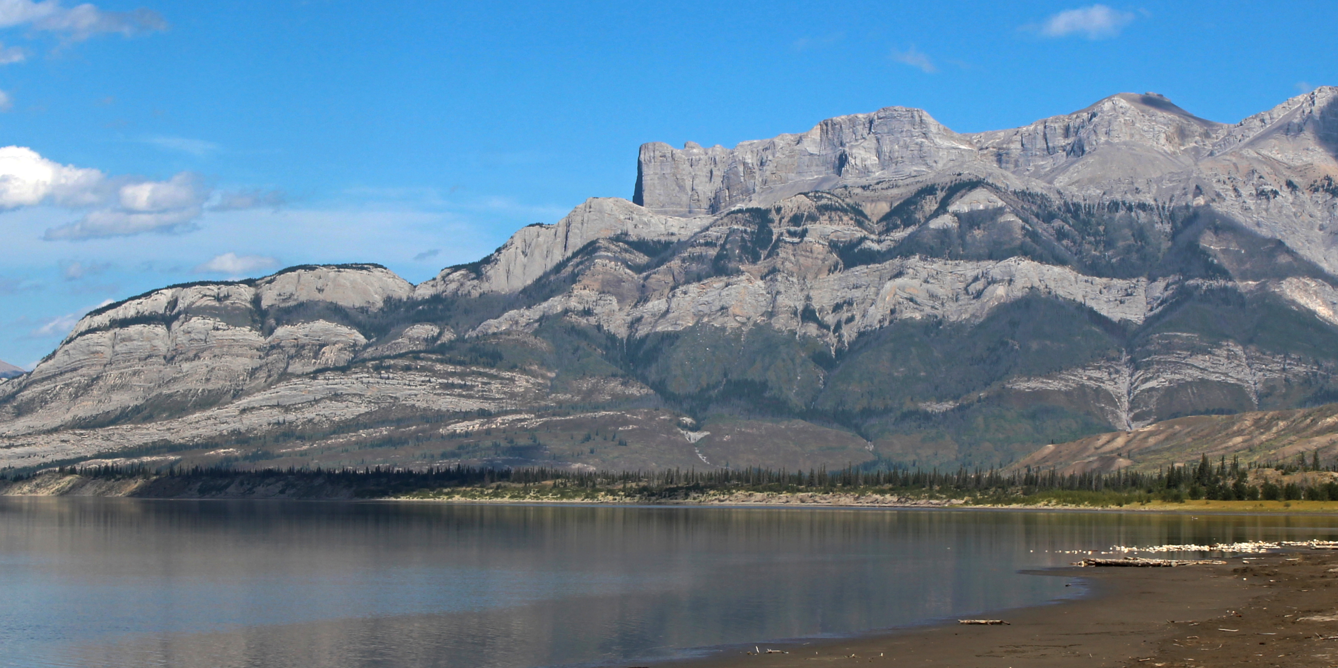 Looking northeast at Roche Miette from Highway 16, Jasper Park, Canada